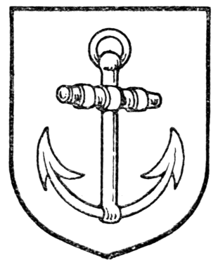 Fig. 498.—Anchor.